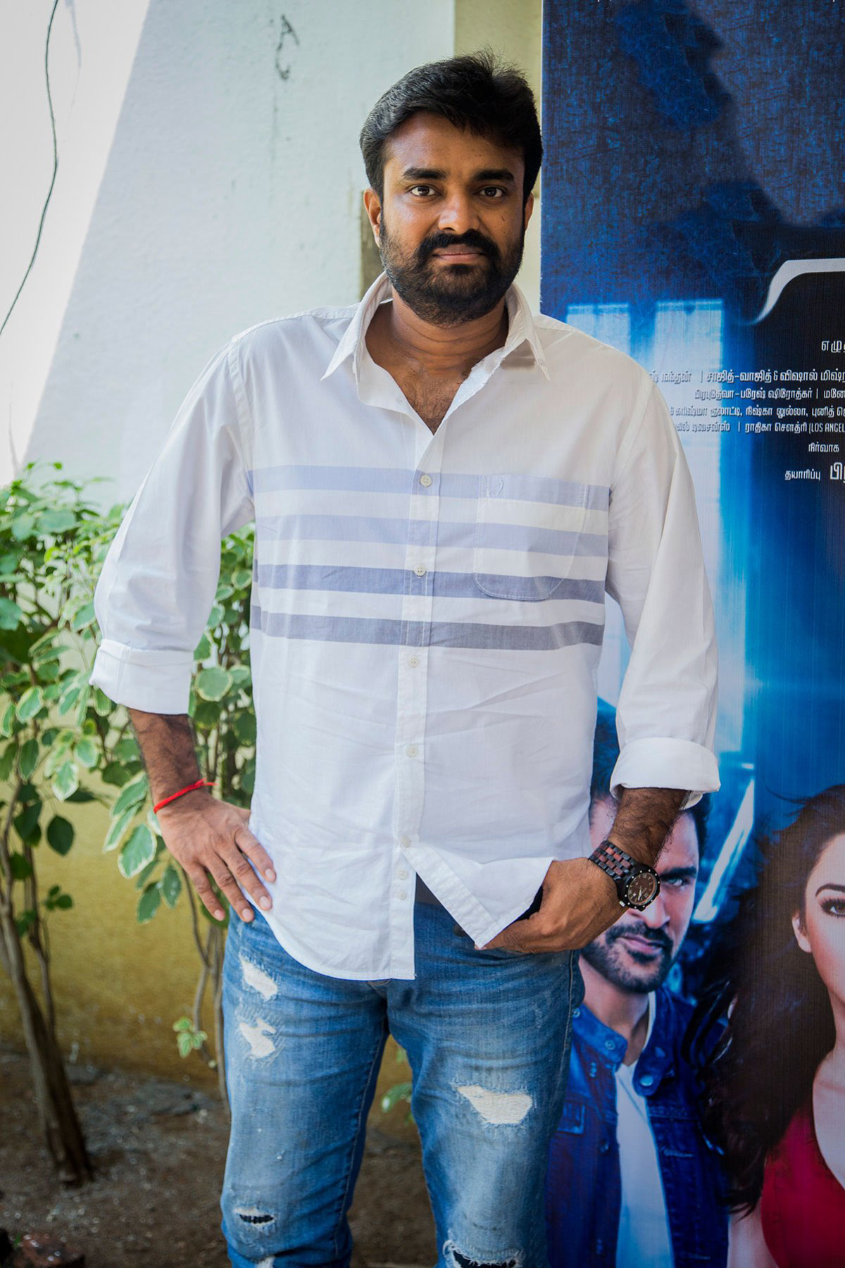 AL Vijay at Devi(L) Success Meet